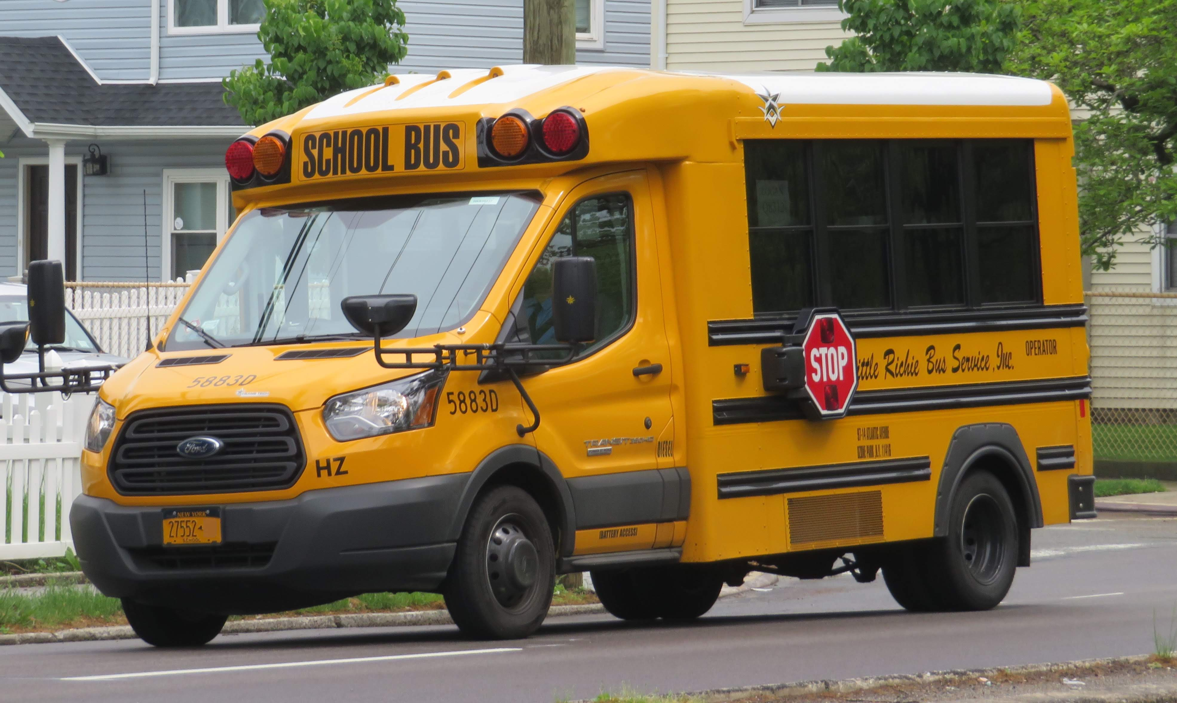 In Queens, New York